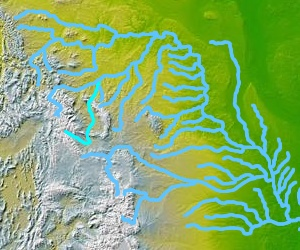 Map of the Wind-Bighorn Rivers System or Wind River—Bighorn River System. Located in the Bighorn River Basin (watershed) of central-northern Wyoming and southern Montana. The upper reaches of the system in the Wind River Range are known as the Wind River. The Wind River officially becomes the Bighorn River at the 'Wedding of the Waters' confluence at the northern end of Wind River Canyon (near Thermopolis, Wyoming). The two rivers are sometimes referred to as the singular Wind/Bighorn River — and are tributaries of the Yellowstone River, which is a major tributary of the upper Missouri River. © 2004 Matthew Trump